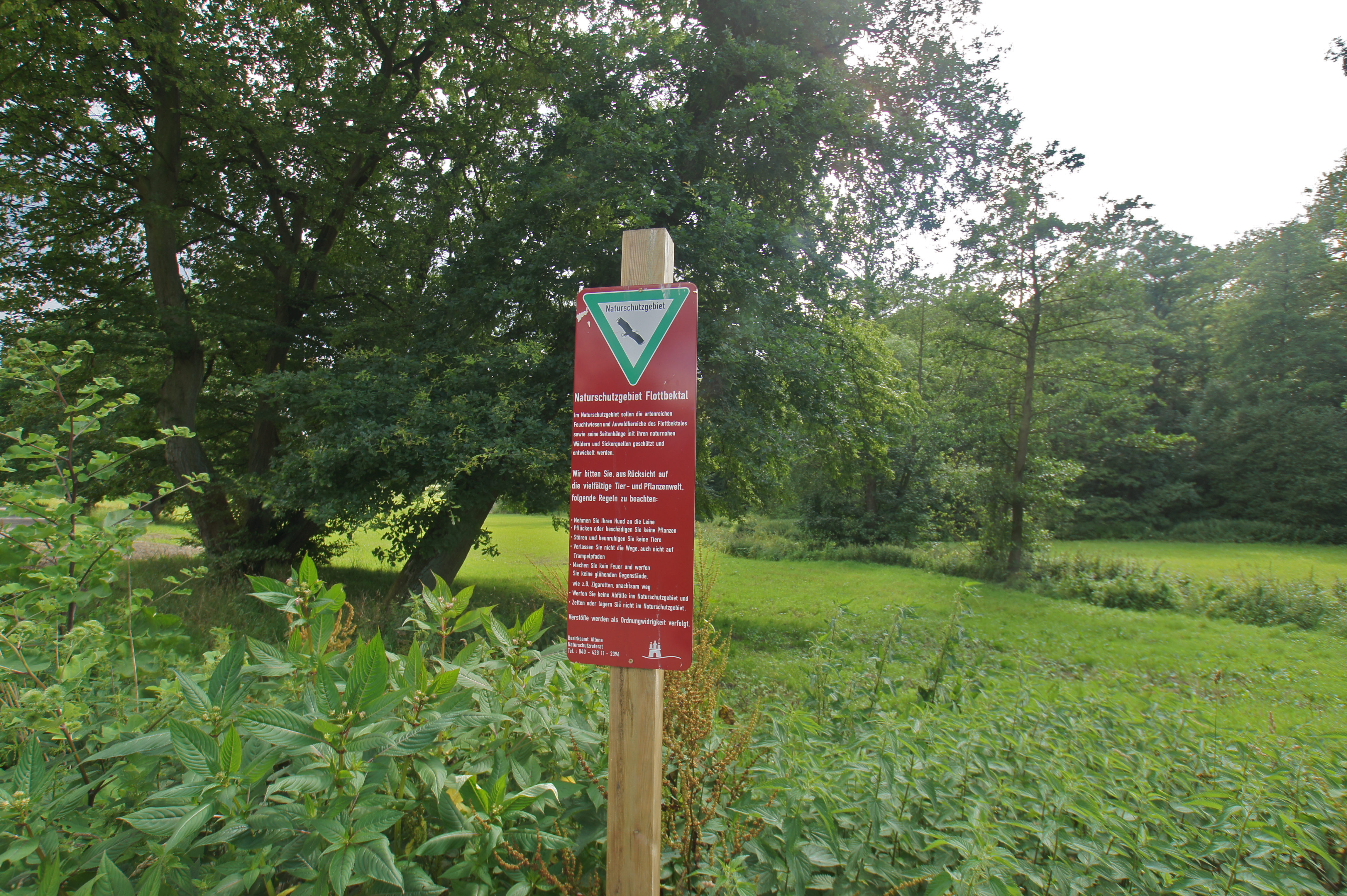 Hamburg (Othmarschen), Germany: Sign at the border of the natural reserve Flottbektal